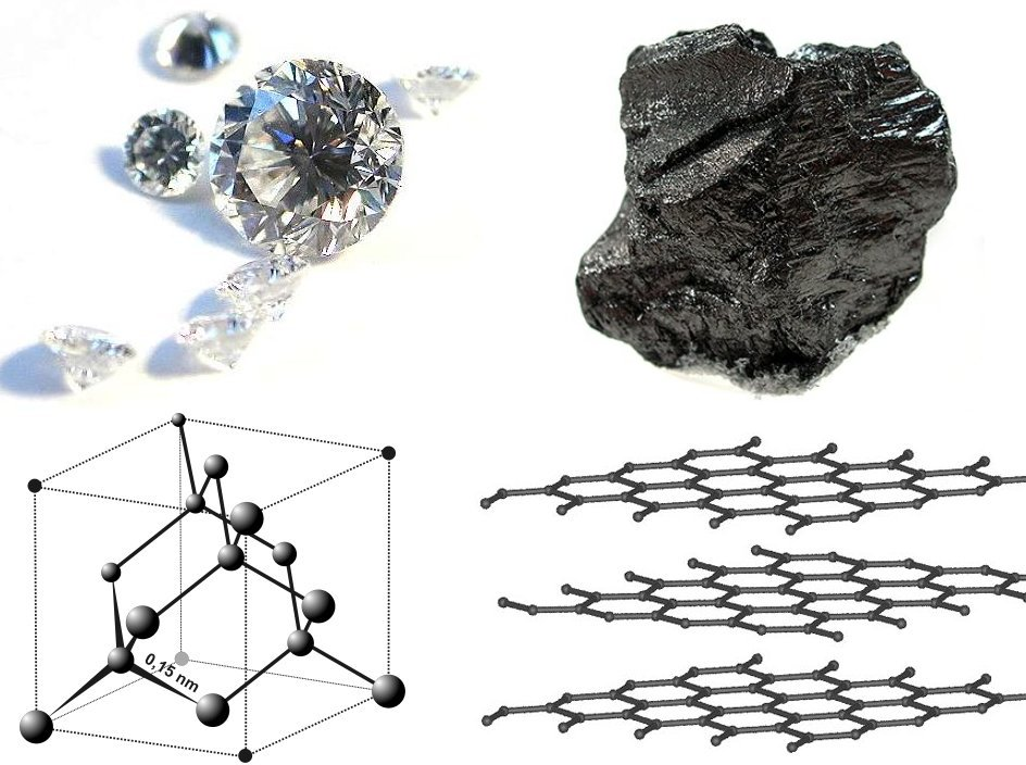 Diamond and graphite samples with their respective structures